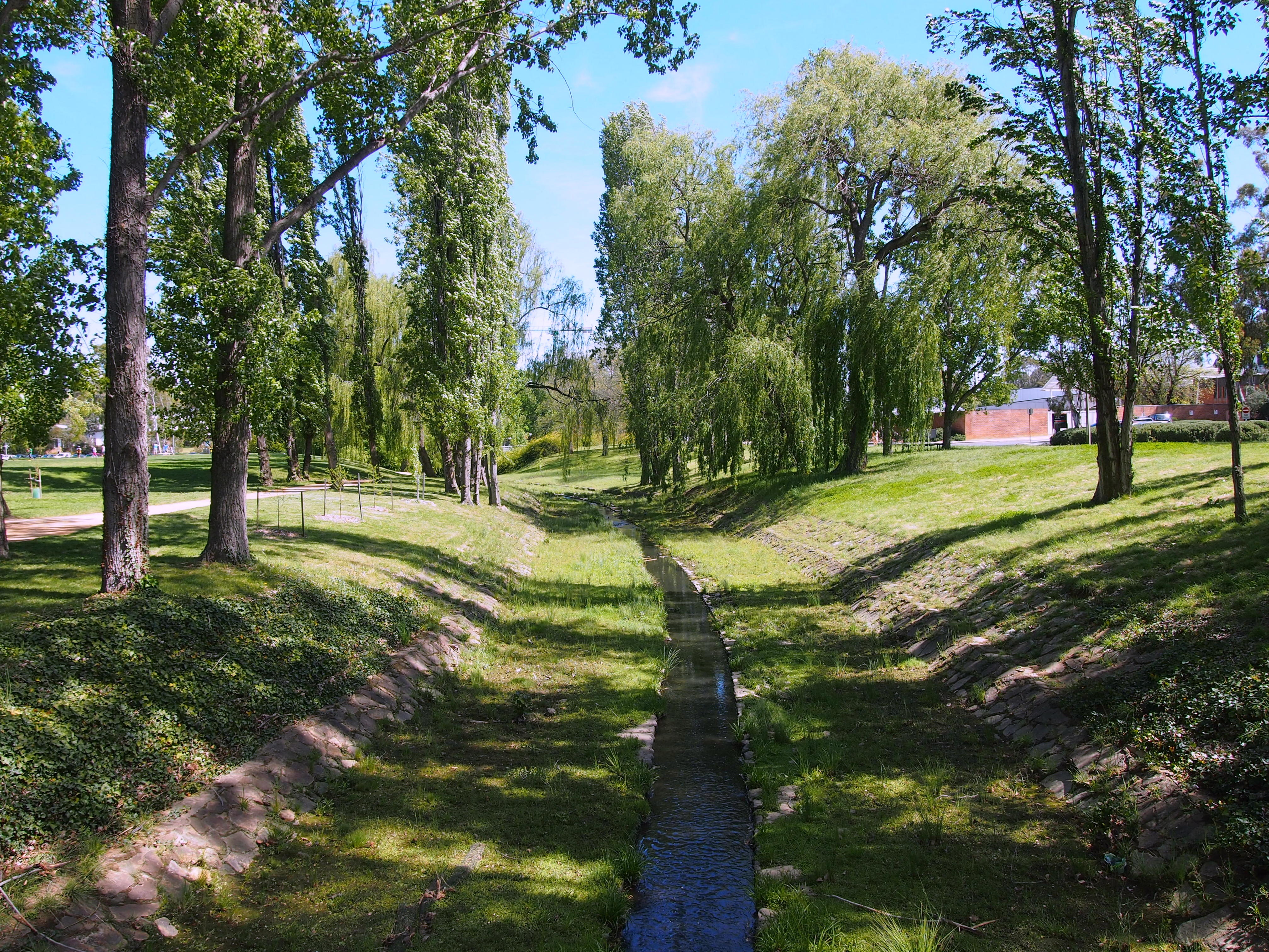 Looking south along Sullivans Creek at the Australian National University